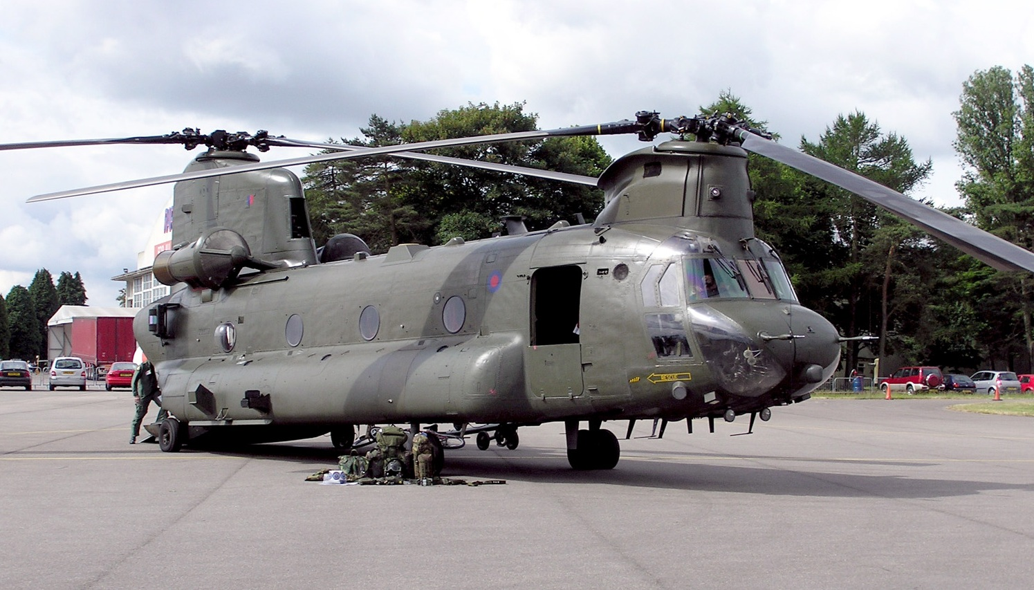 Chinook HC2 (ZA677) of the RAF at an air display at Kemble airfield, Gloucestershire, England. Taken by Adrian Pingstone in June 2004 and placed in the public domain.